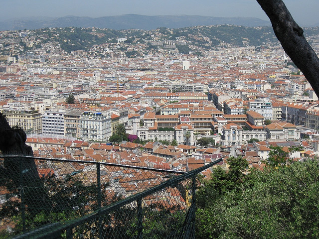 View from colline du château in the direction of northwestern Nice.